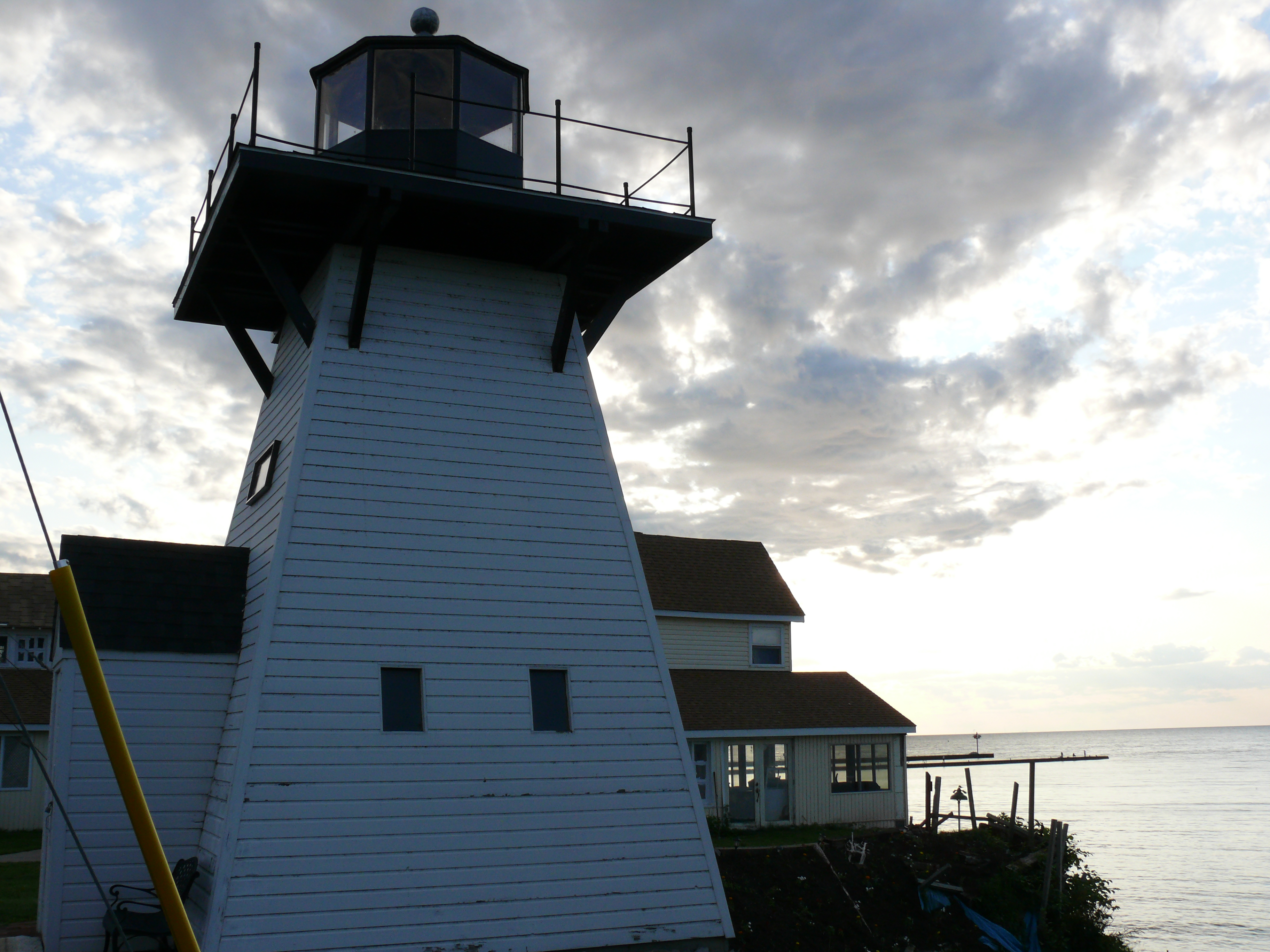 Olcott, New York is a hamlet (and census-designated place) located in the Town of Newfane in Niagara County, New York, United States 14126. Most locals refer to it as Olcott Beach. It is a lakeside community which is home to the deepest harbor on Lake Ontario west of Rochester, NY. Olcott Light was built on a pier in Olcott, New York at Eighteen Mile Creek, named for being eighteen miles from the Niagara River. The light was no longer needed in the 1930s, and was moved to a local yacht club, where it resided until the early 1960s when it was destroyed. In the summer of 2003, a replica was built from old photographs.